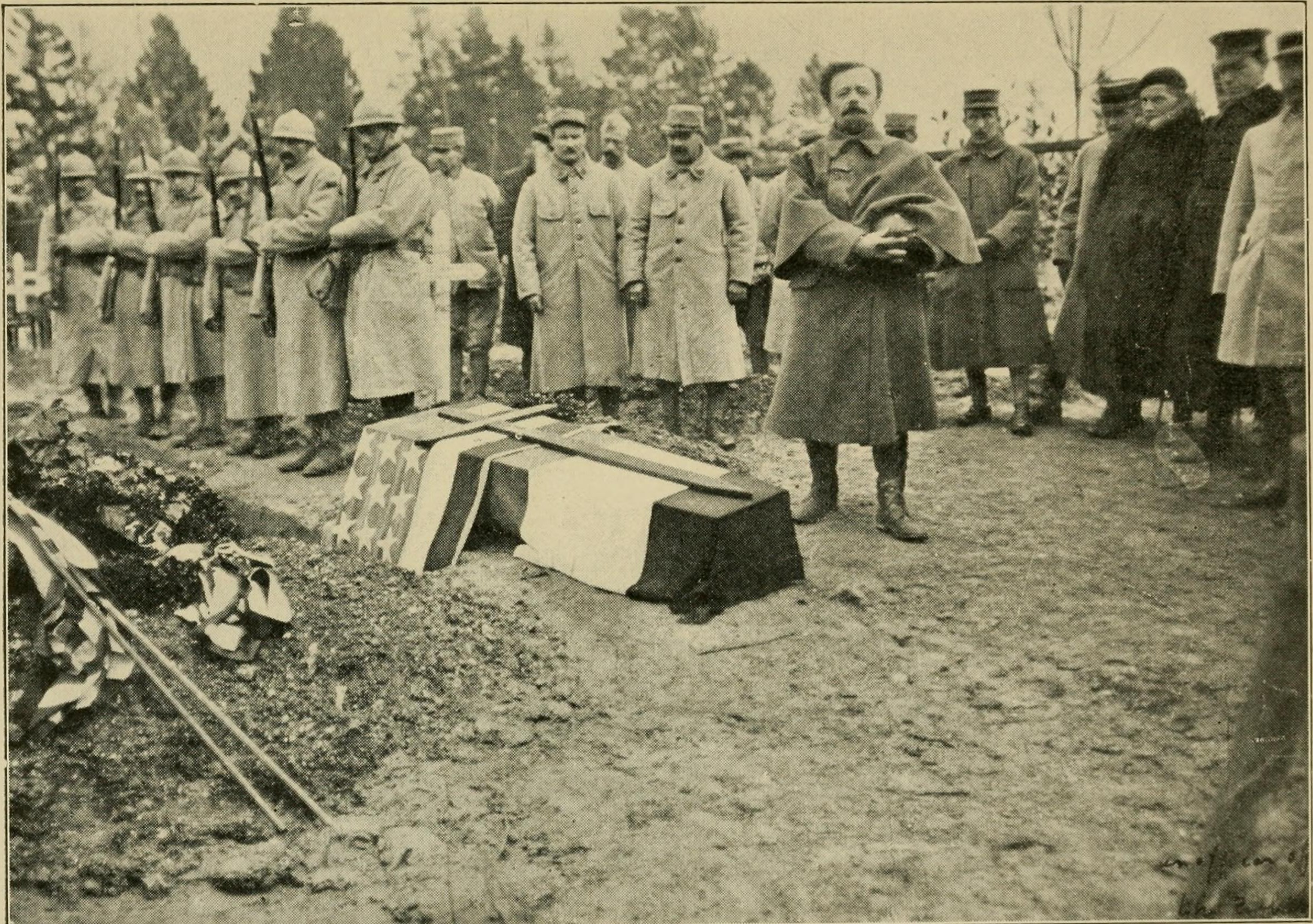 Captain Thenault delivering the funeral discourse at the grave of Edmond Genet in France